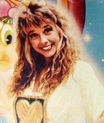 Alejandra Gavilanes- actriz argentina